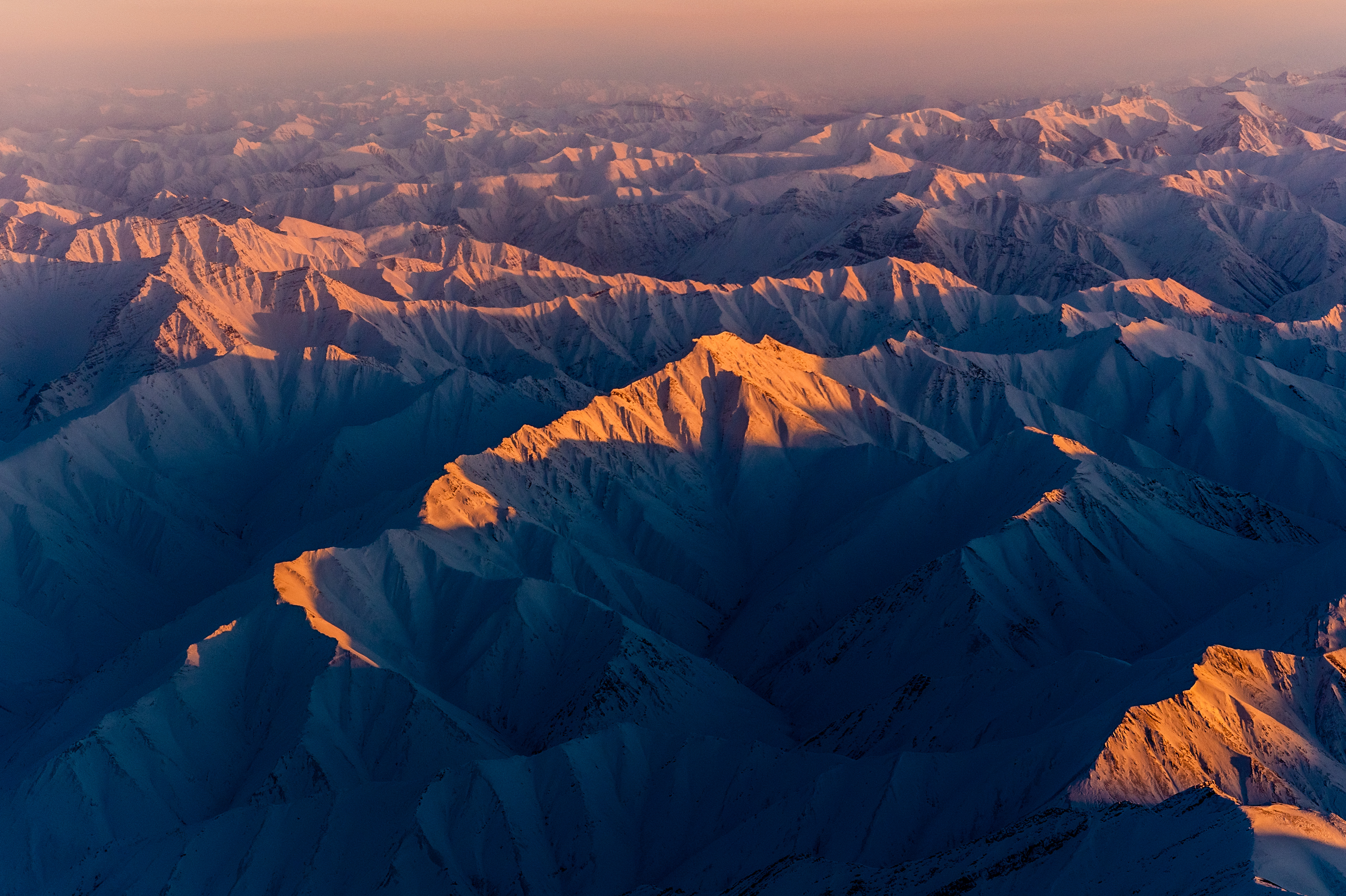 Verkhoyansk Range, Republic of Sakha (Yakutia)